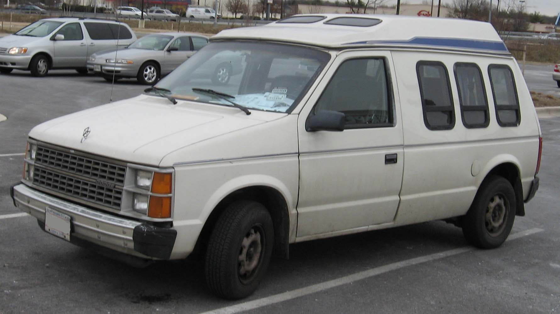 1984-1986 Dodge Caravan camper van photographed in USA.